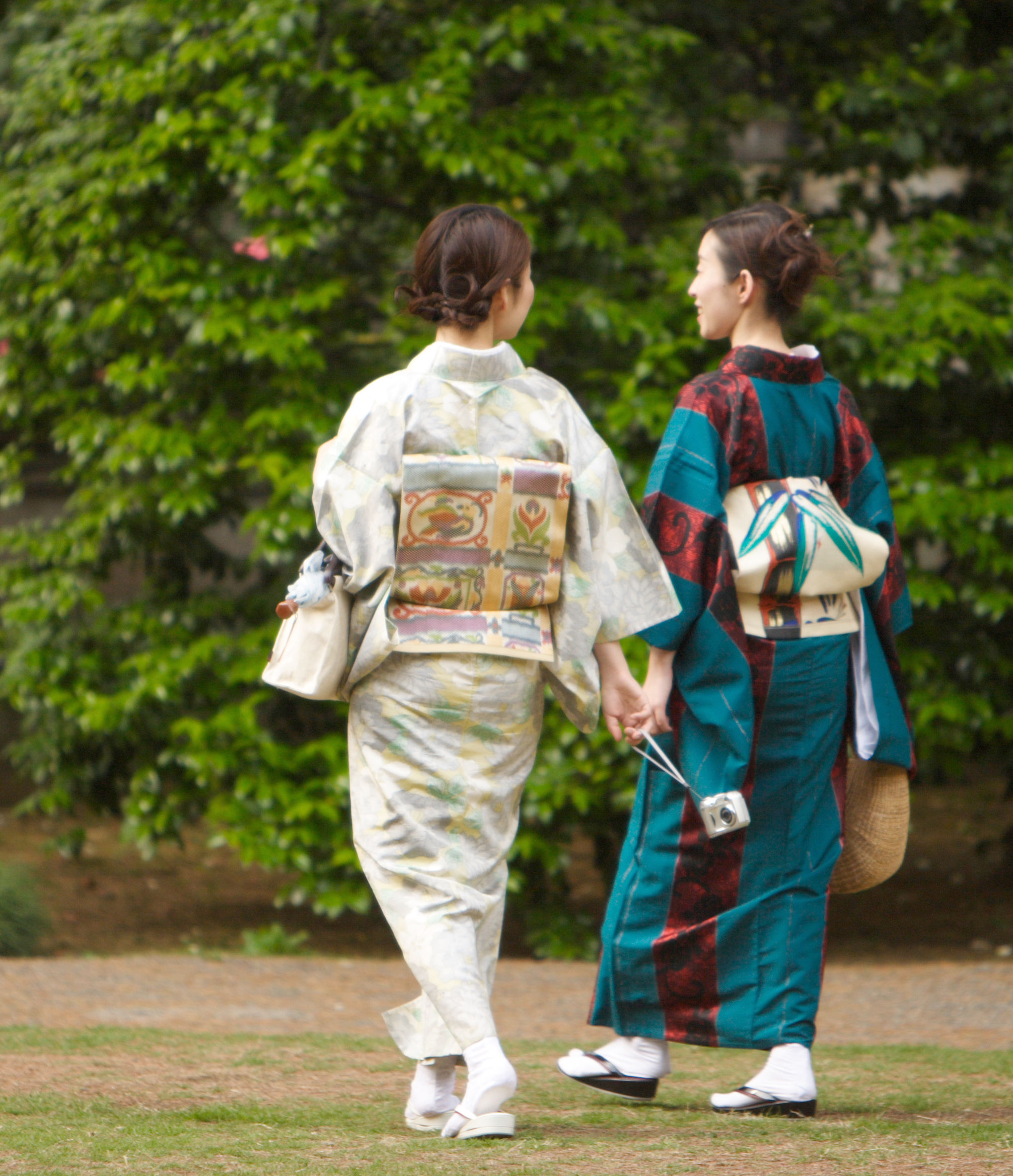 Women wearing kimonos in Tokyo, Japan [MAP]